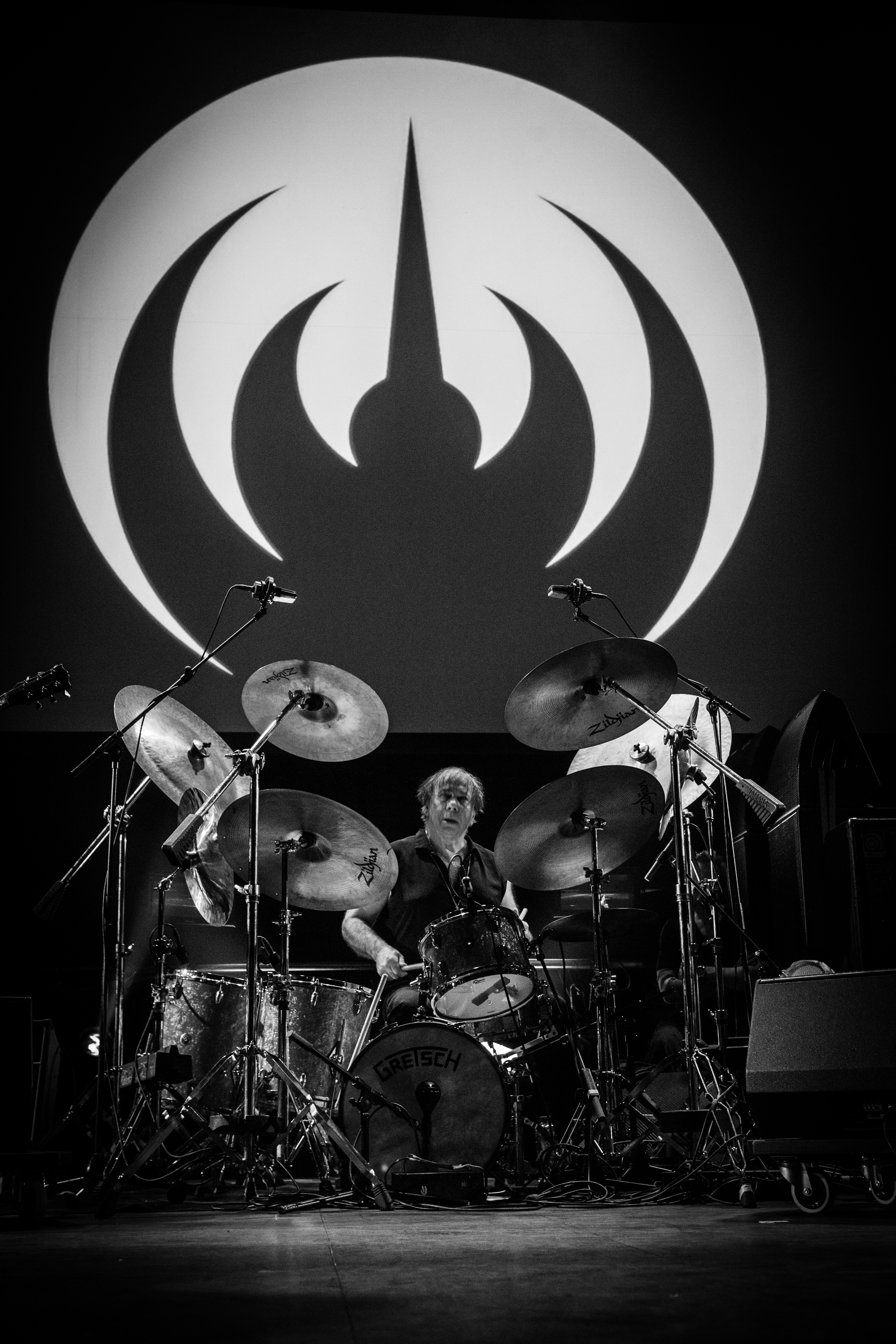 MAGMA live at Roadburn Festival, Tilburg, April 2017